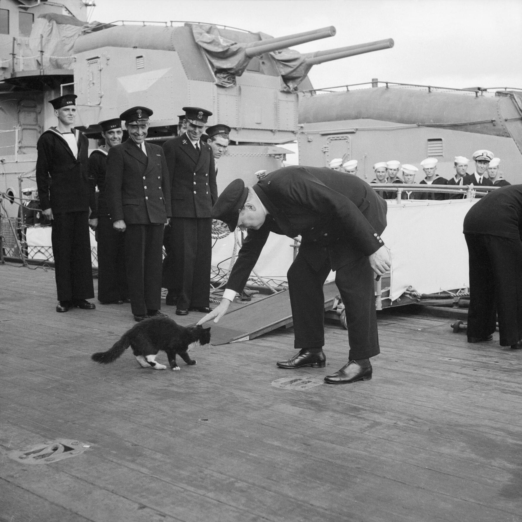 Atlantic Conference August 1941: Churchill restrains 'Blackie' the cat, the mascot of HMS Prince of Wales, from joining the USS McDougal, an American destroyer, while the ship's company stand to attention during the playing of the National Anthem.